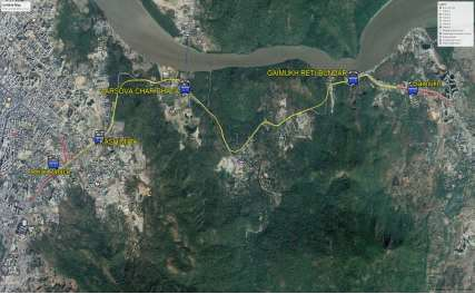 Metro line 10 Map